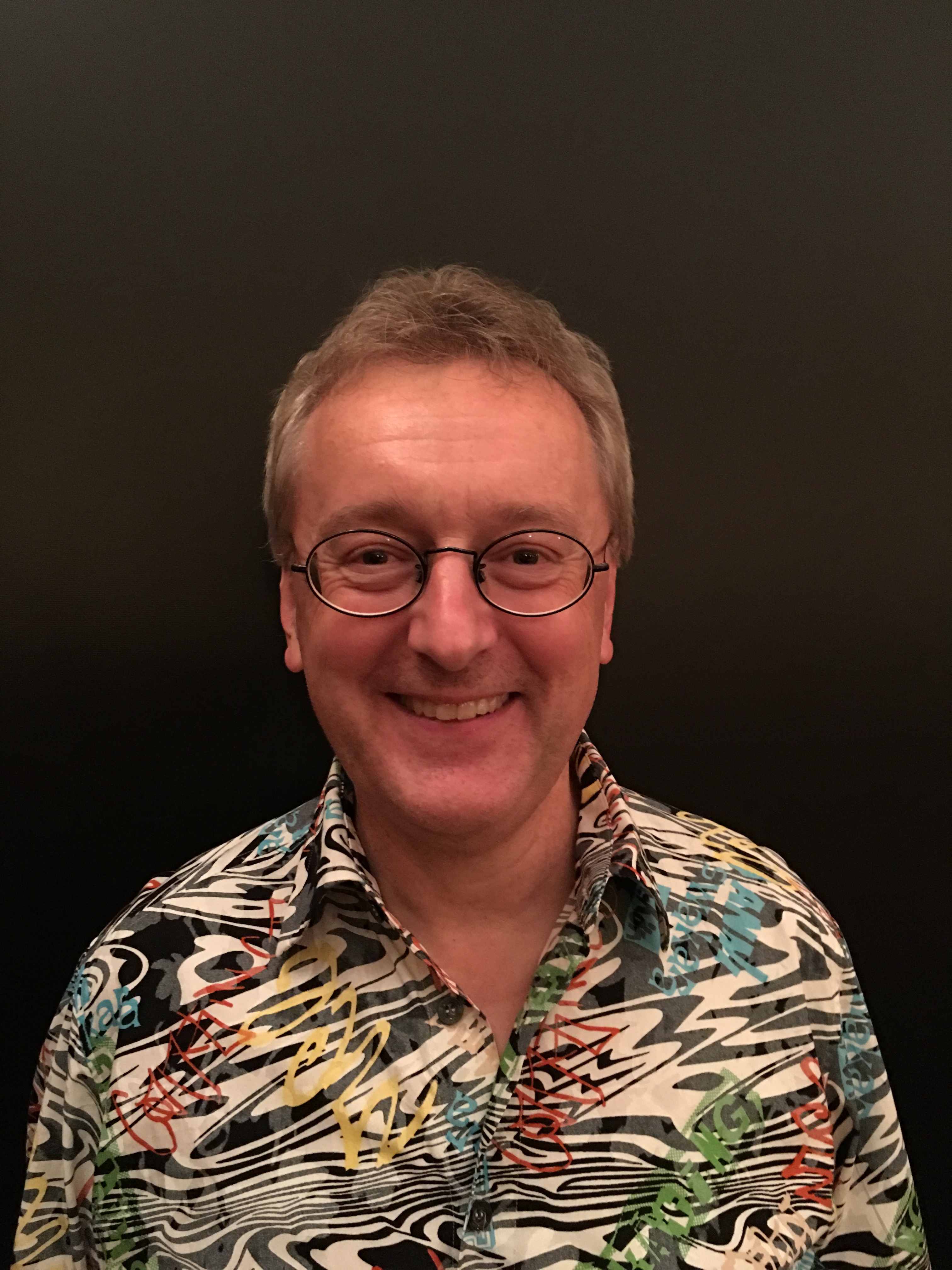 Fraconian dialect poet Helmut Haberkamm